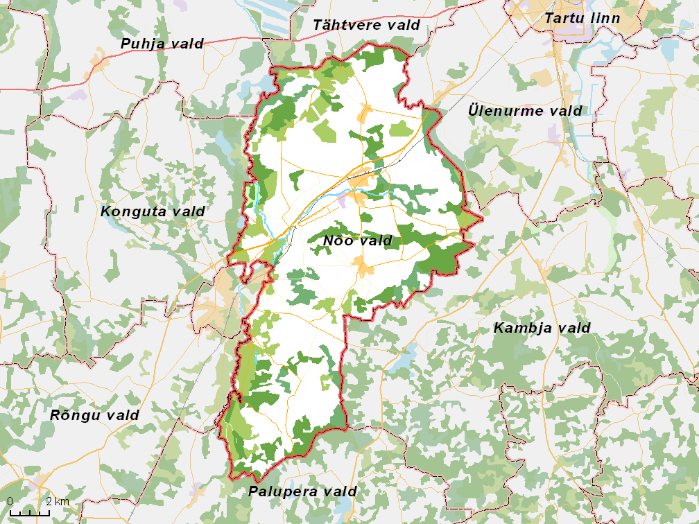 Map of municipality in Estonia